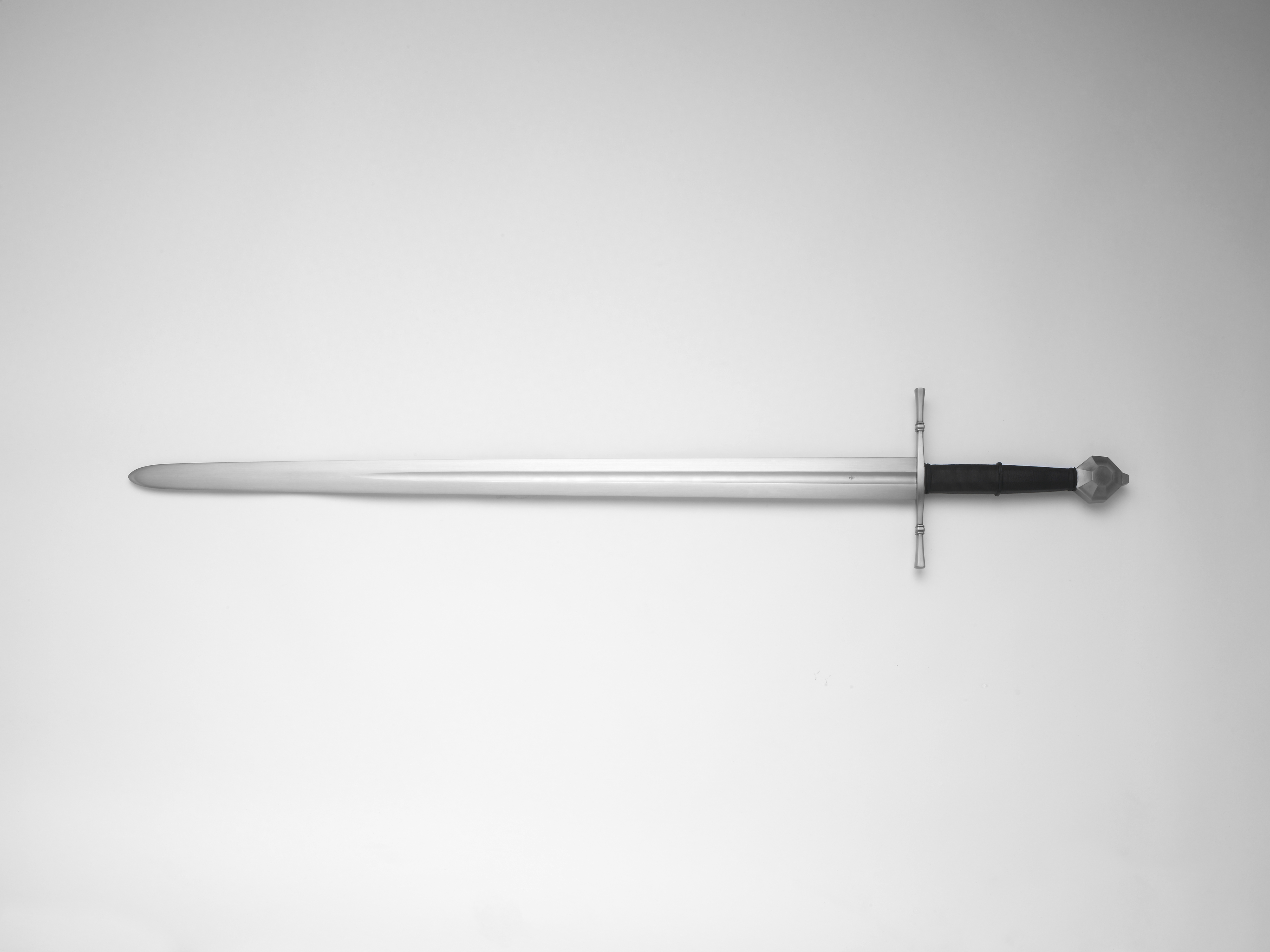 The Count Limited Edition Medieval War Sword